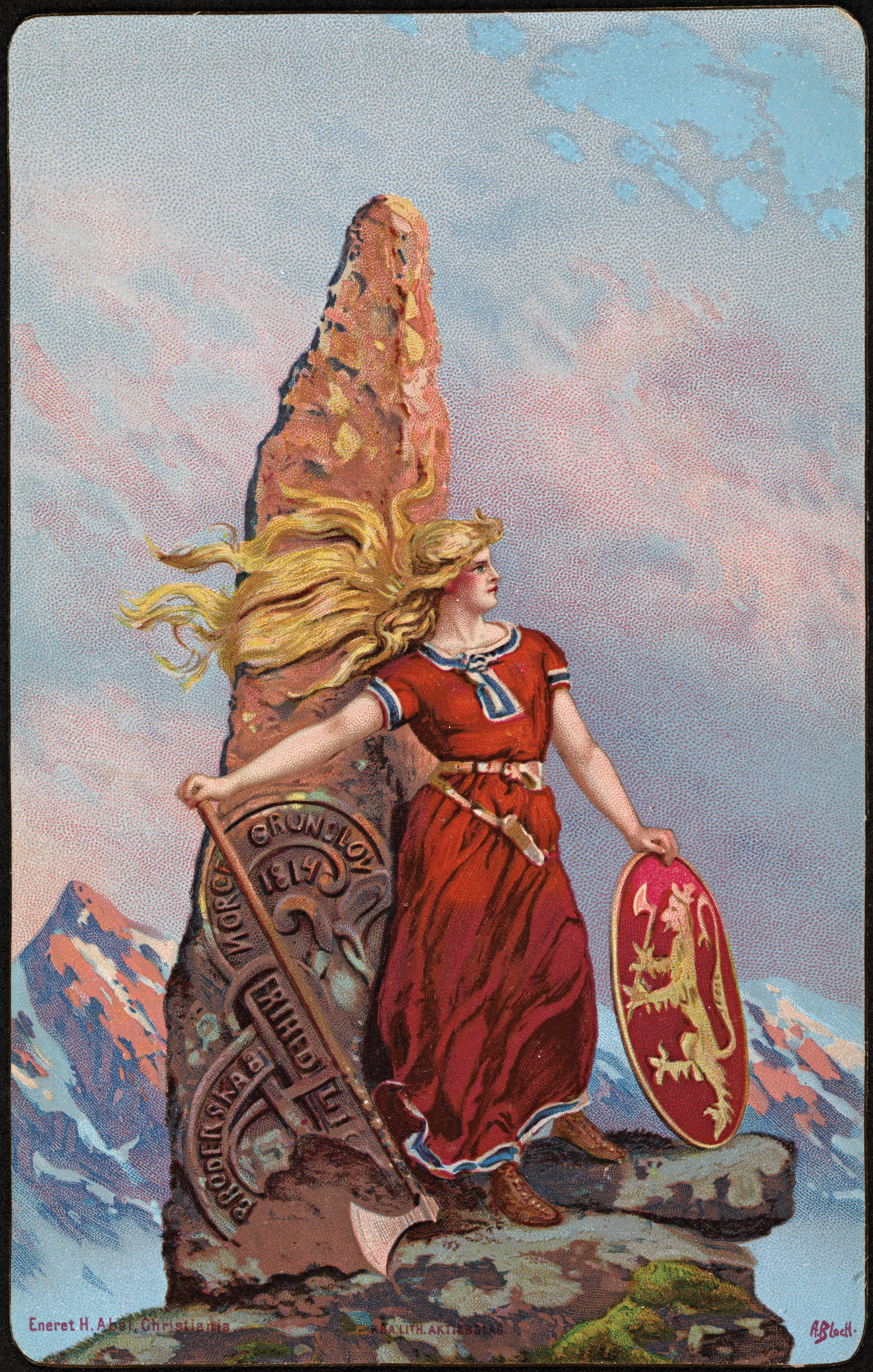 Tittel / Title: Norges Grundlov 1814 "Frihed, Lighed, Broderskab" ("Constitunion of Norway 1814 Liberty, Equality, Fraternity") Beskrivelse / Description: Postkort. (Postcard) Dato / Date: 1914 Kunstner / Artist:Andreas Bloch (1860-1917) Utgiver / Publisher: H. Abel (Christiania) Eier / Owner Institution: Nasjonalbiblioteket / National Library of Norway Lenke / Link: Bildesignatur / Image Number: blds_05807